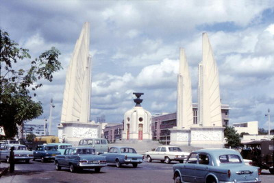 ภาพรถในพระนคร